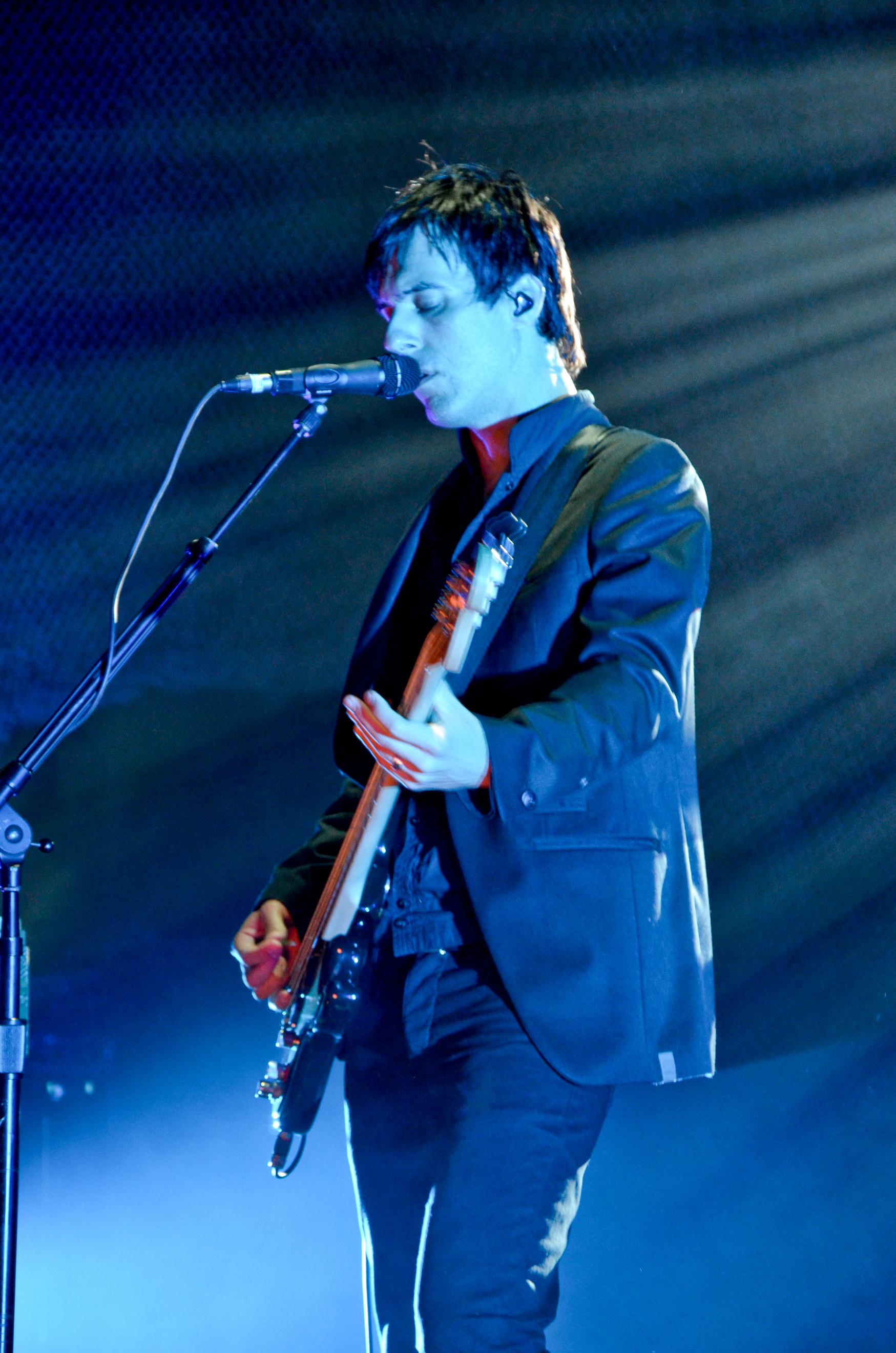 Bassist Matt McJunkins